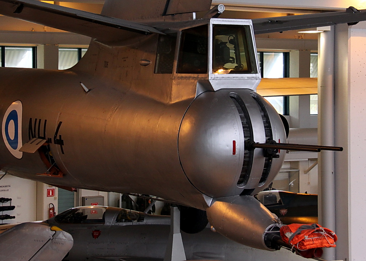 Iljušin IL-28R (NH-4) in Aviation Museum of Central Finland.